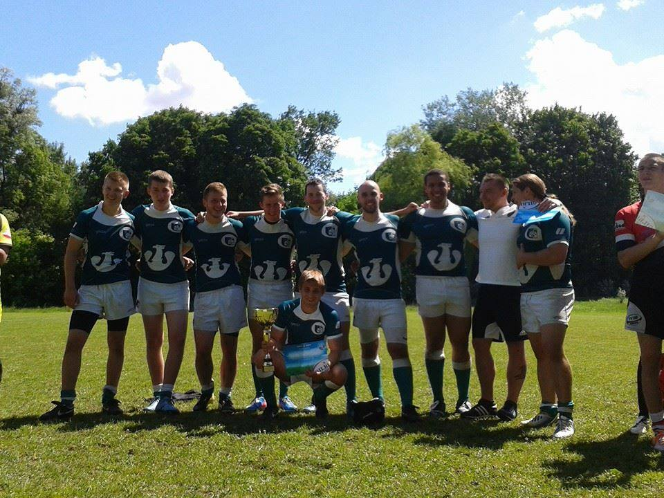 Drużyna AZS ZUT Rugby Szczecin - Szczecin 14.06.2014